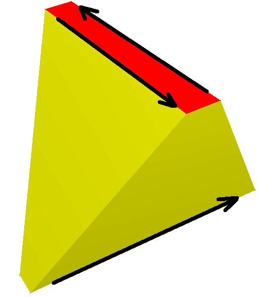 Improper rotation, S4, shown on beveled diagonal antiprism